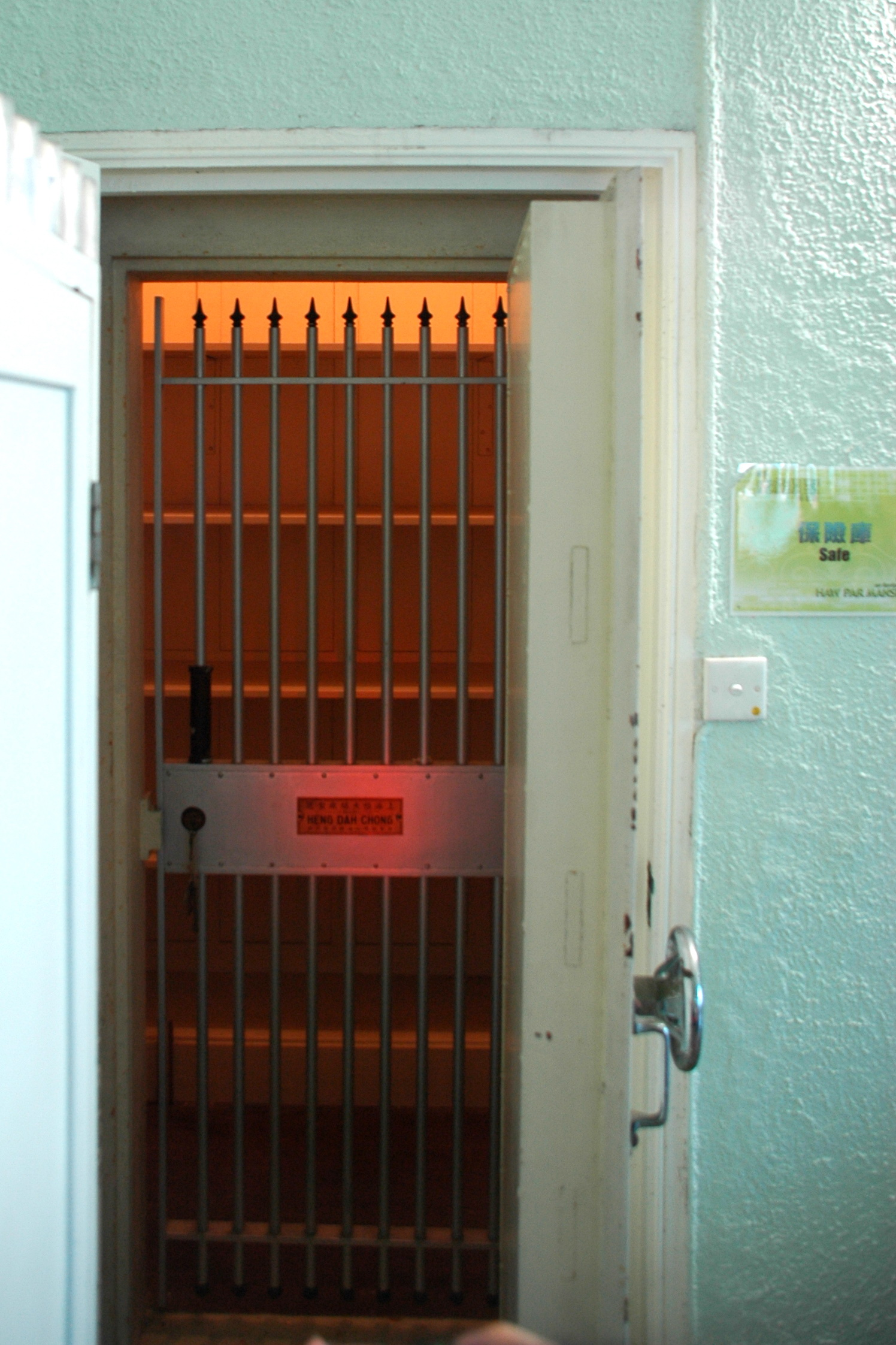 Walk-in safe in the Tiger Balm Garden, Hong Kong.